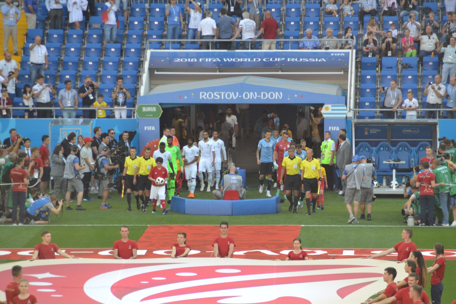 Saudi Arabia and Uruguay match at the 2018 FIFA World Cup.